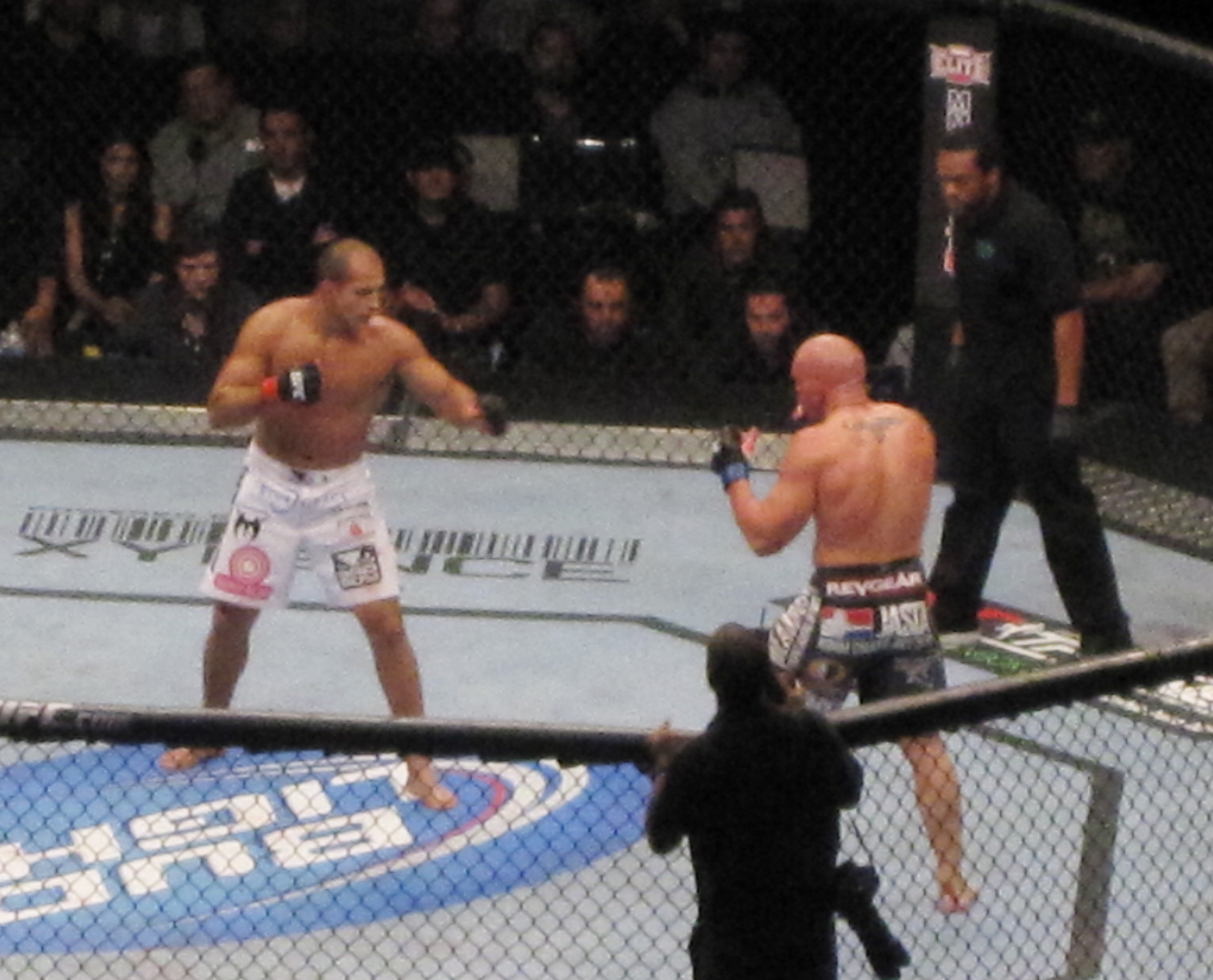 Picture of fighters Shane Carwin and Junior Dos Santos facing off at UFC 131 in Vancouver, Canada.